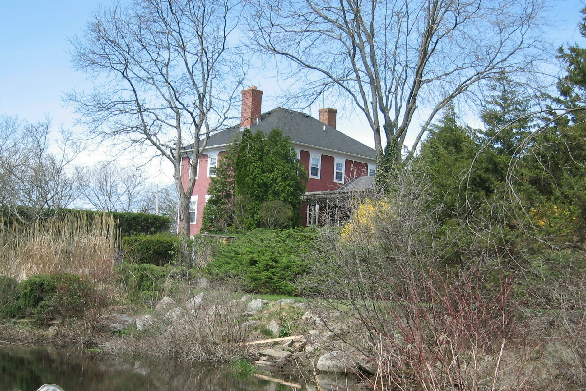 4 Albee Road Uxbridge MA 01569 The historical William and Mary Farnum House from an easterly view. The historical William and Mary Farnum (Royal Farnum) cemetery are located behind the home/business (Landscaping Company/ranch house) of the adjacent property on 20 Albee road. A public easement exists to this cemetery, thus allowing public viewing.